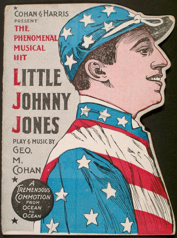 Unnumbered pamphlet for Little Johnny Jones.